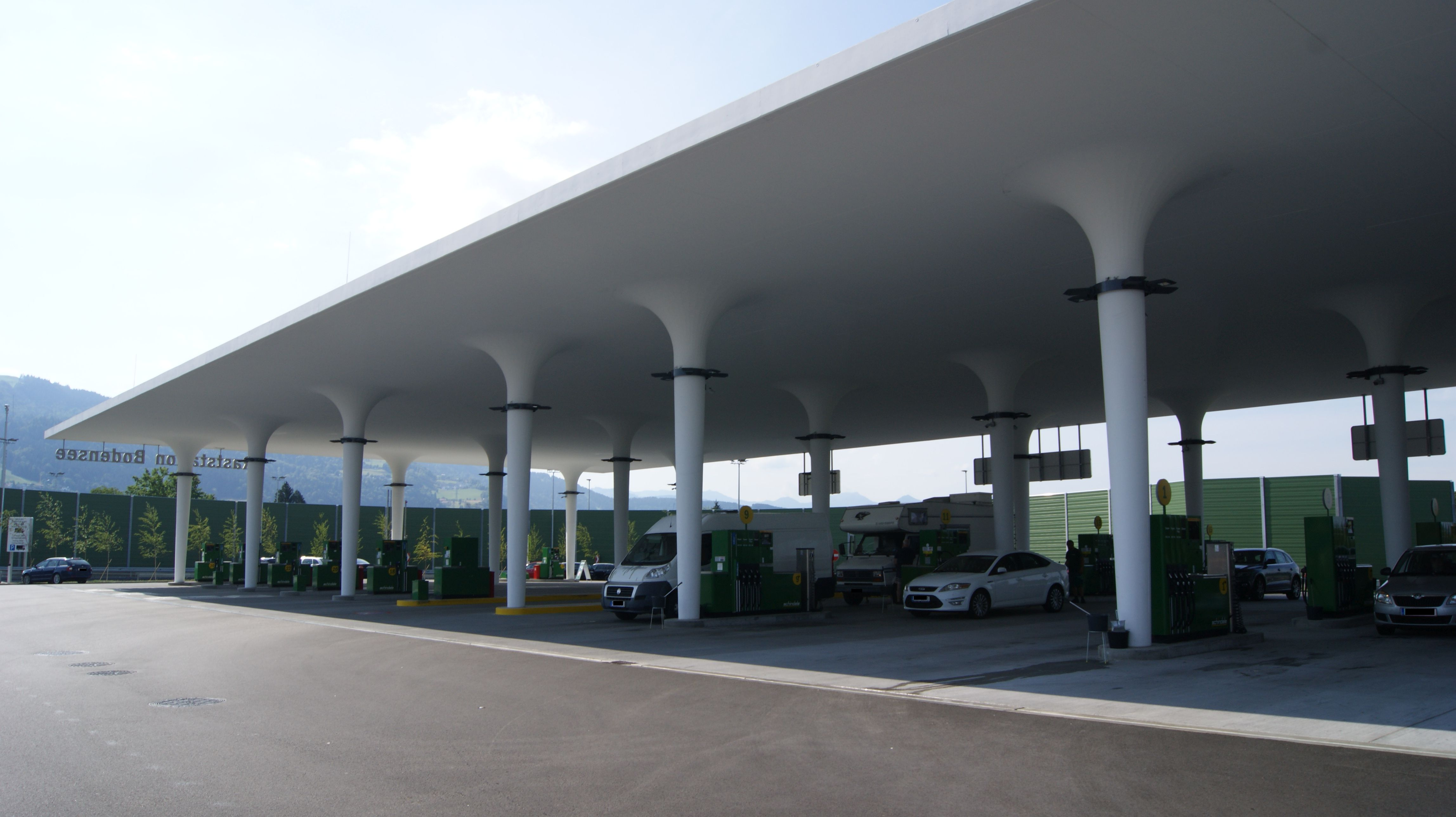 Rest area "Bodensee" ("Lake Constance") in the community Hörbranz in Vorarlberg, Austria.